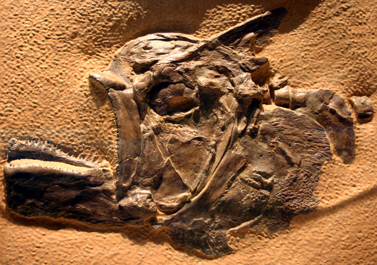 Ichthyodectes anaides, Smithsonian National Museum of Natural History.